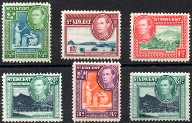 1938 definitive stamps of St.Vincent from the reign of King George VI.